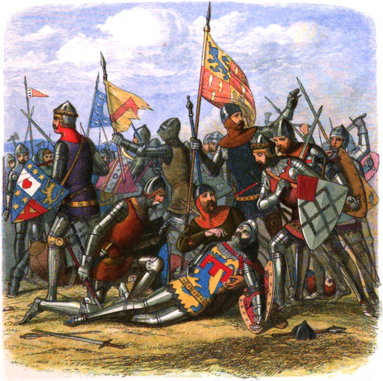 Henry "Hotspur" Percy rebels against Henry IV and dies in the Battle of Shrewsbury. Doyle points out an error in the engraving: "the mullets or stars in the first quarter of the Douglas shield should be argent."